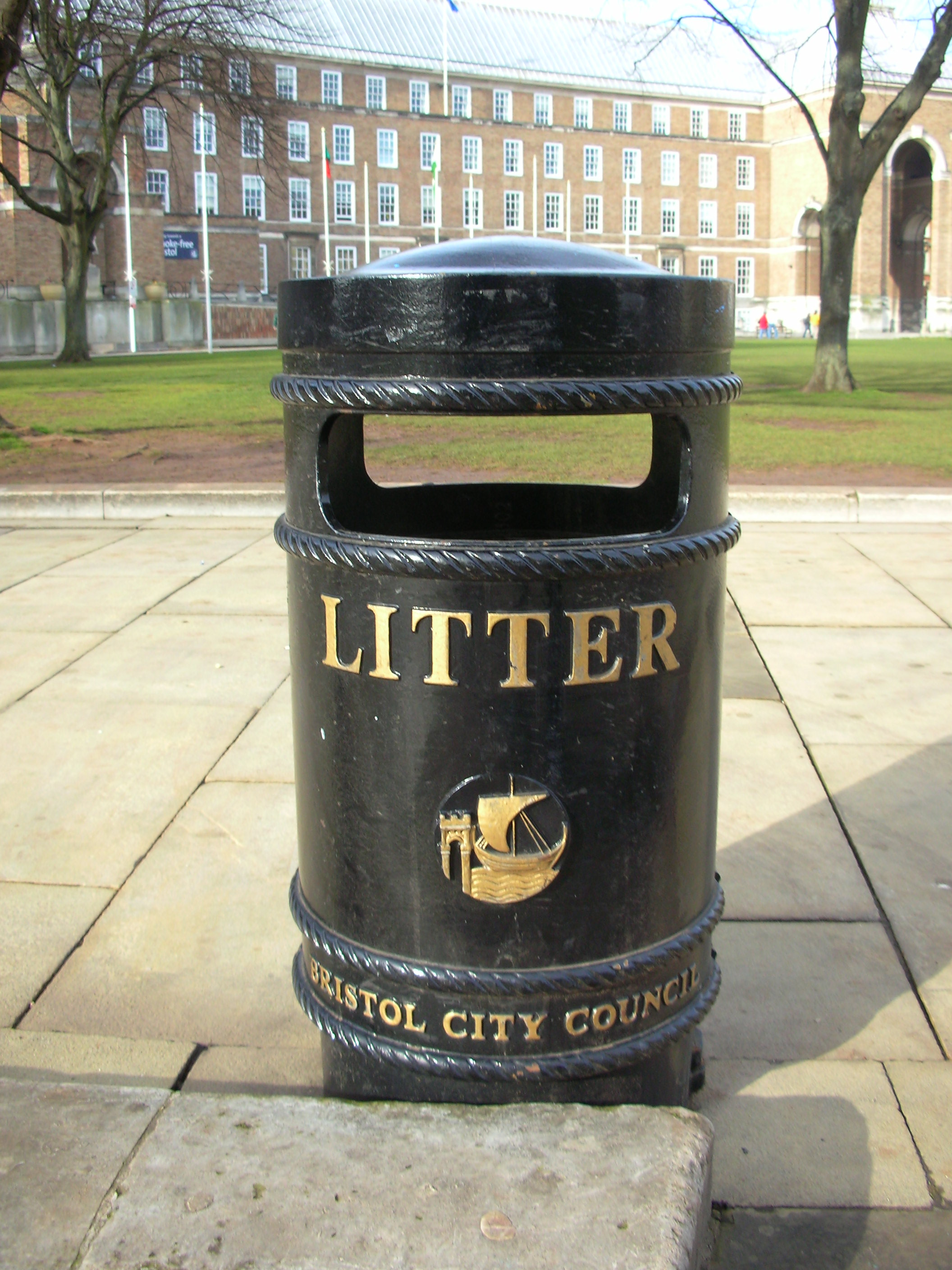 A litter bin located on College Green, Bristol, UK with the logo of Bristol City Council visible.